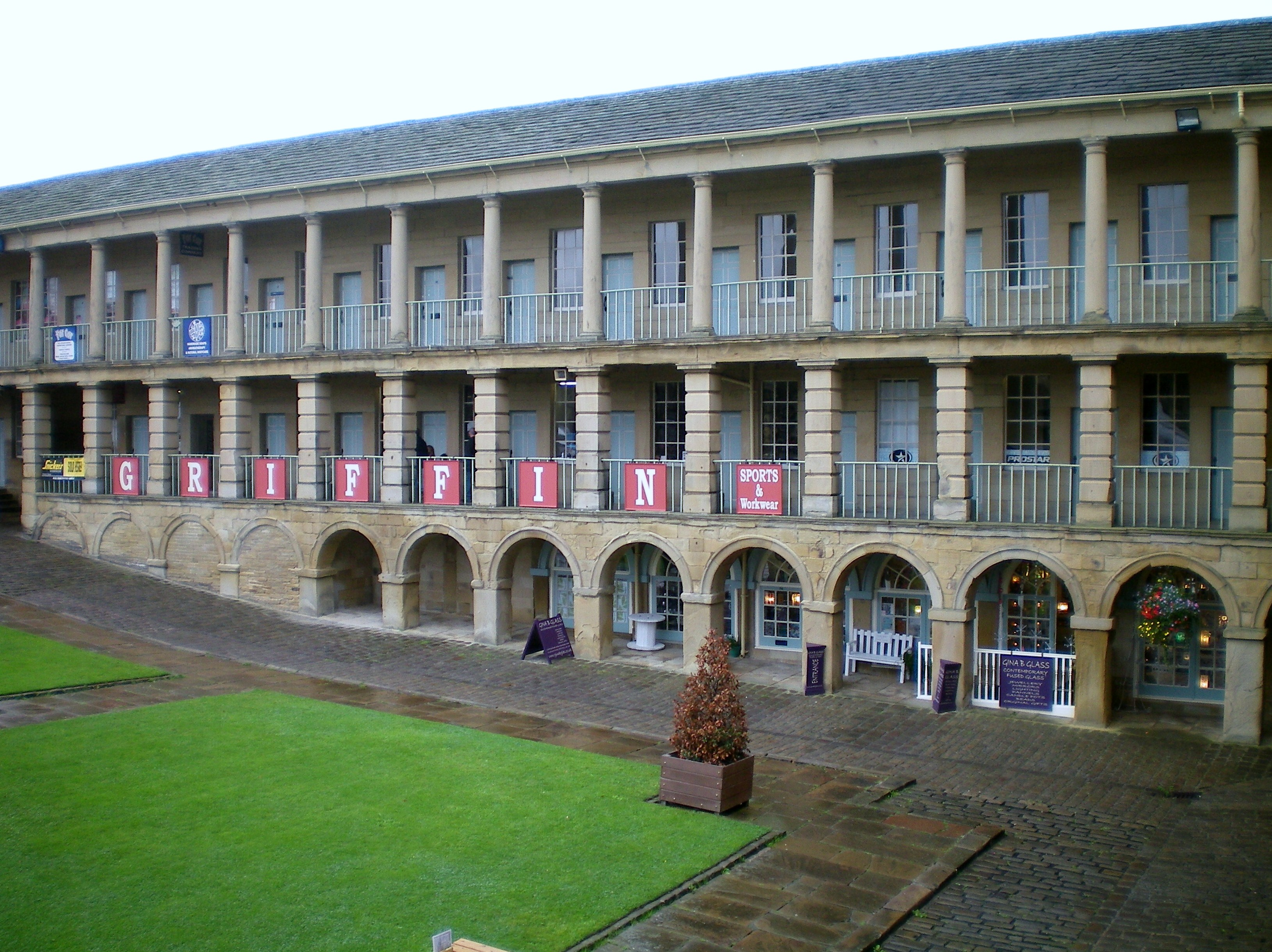 Halifax Piece Hall, West Yorkshire, England.